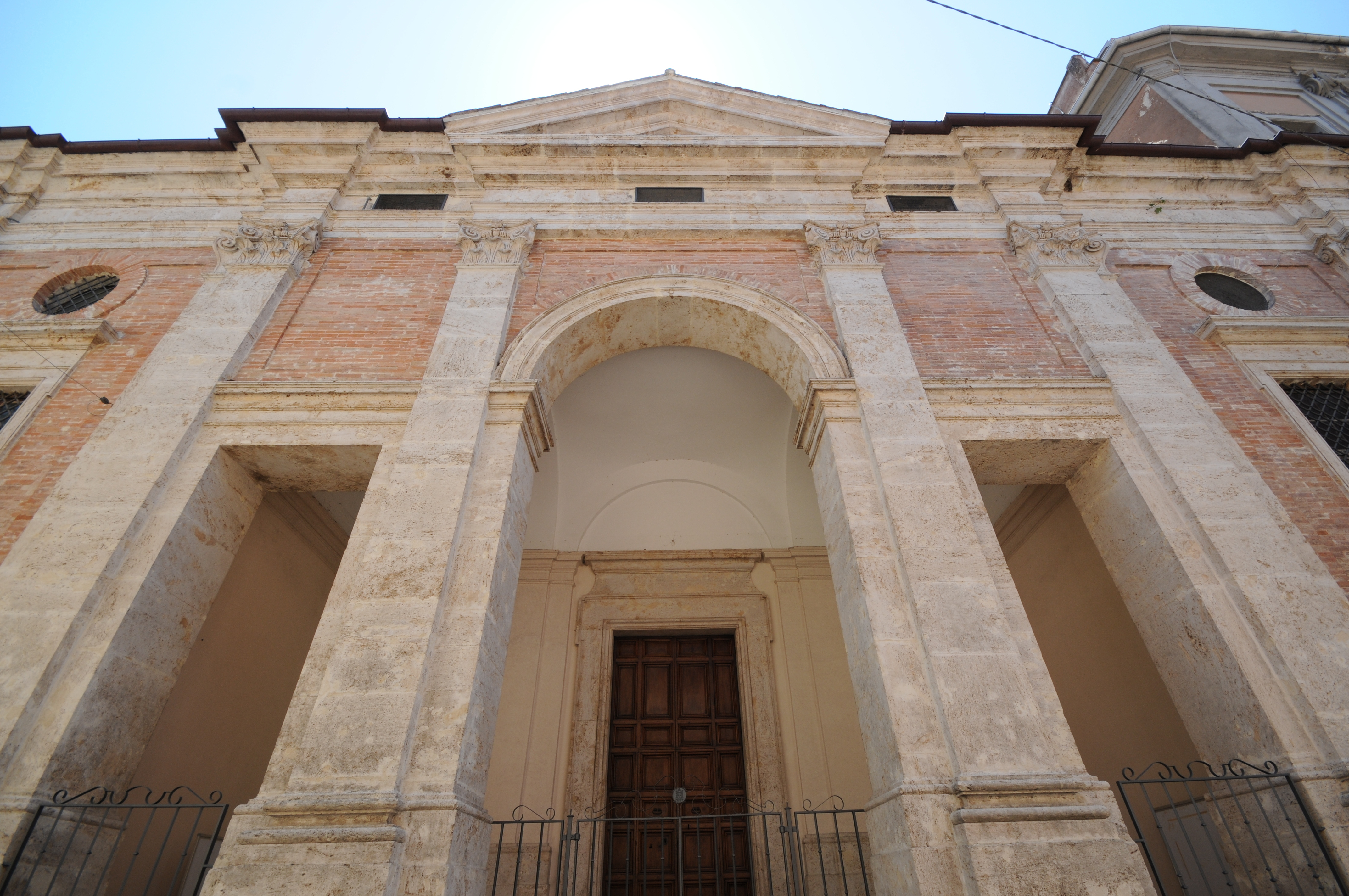 Former church of Santa Scolastica, that now houses the Varrone Auditorium - Rieti (Lazio, Italy)